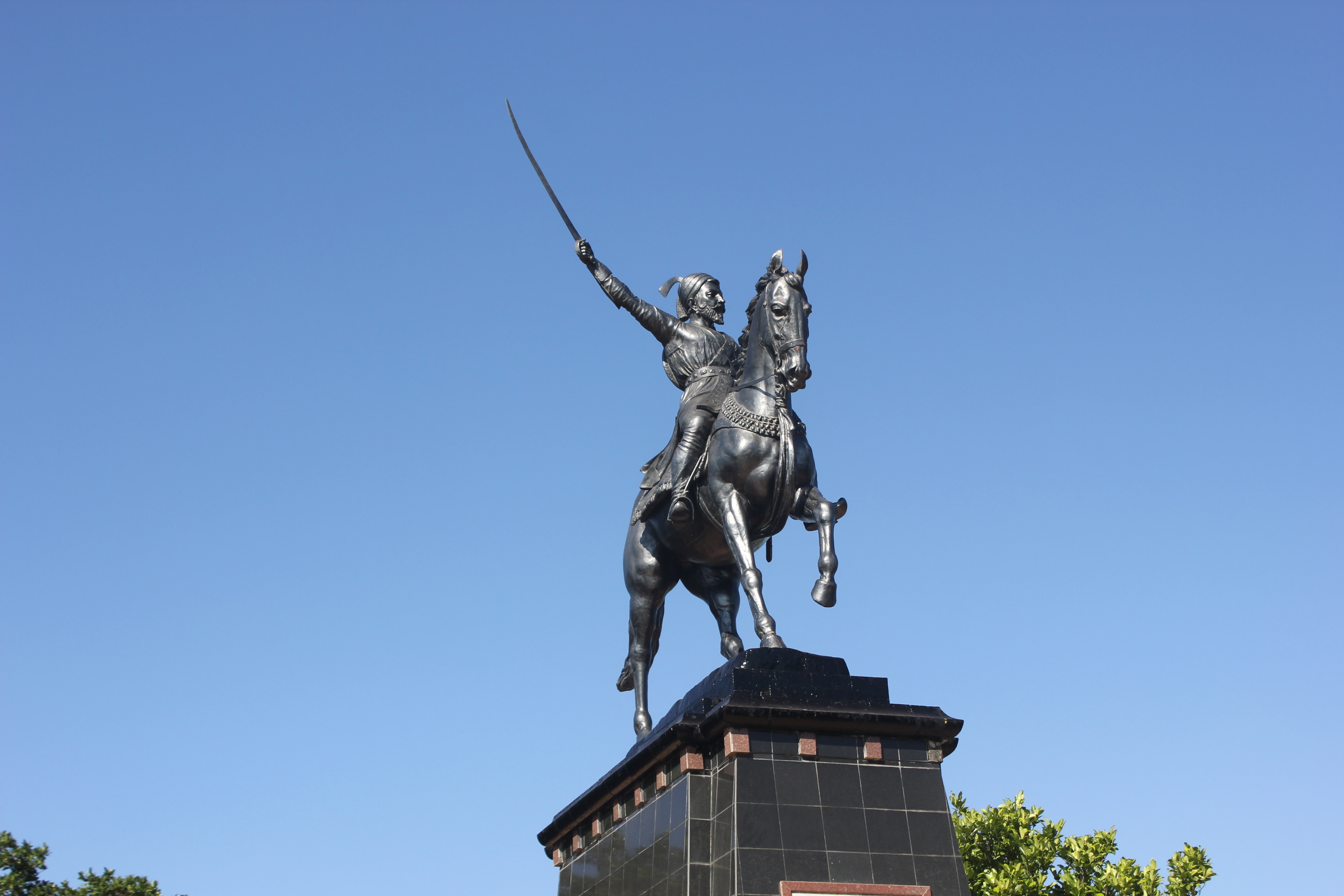 Statue of Chhatrapati Shivaji at Pratapgad, Maharashtra, India